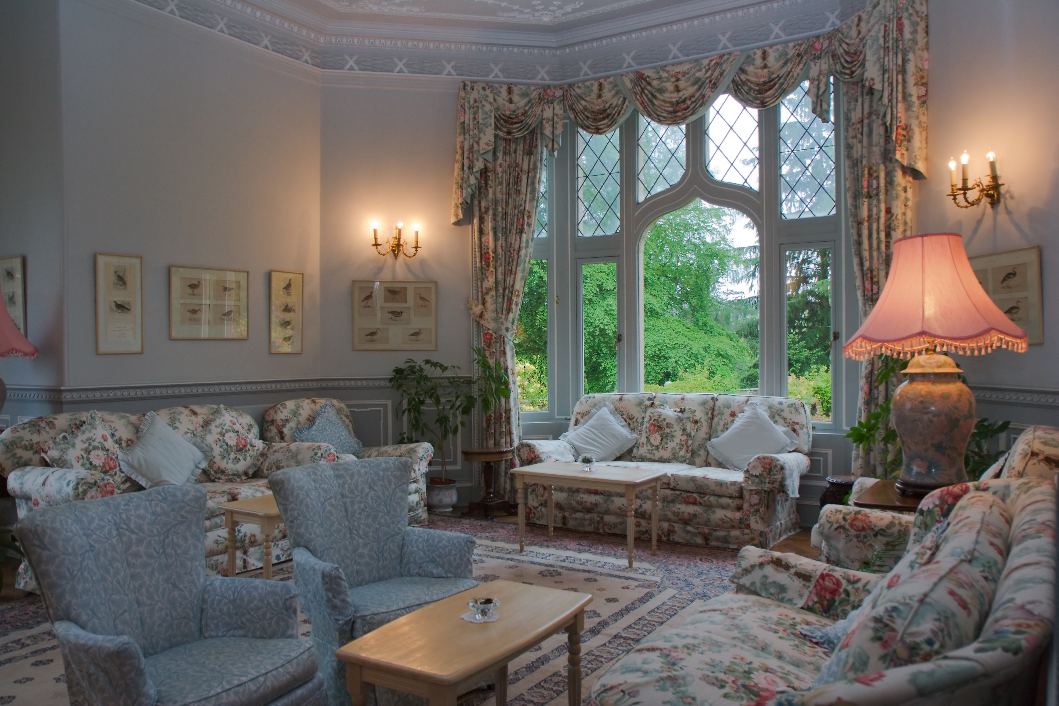 Drawing room in Kildrummy Castle Hotel, Aberdeenshire, Scotland